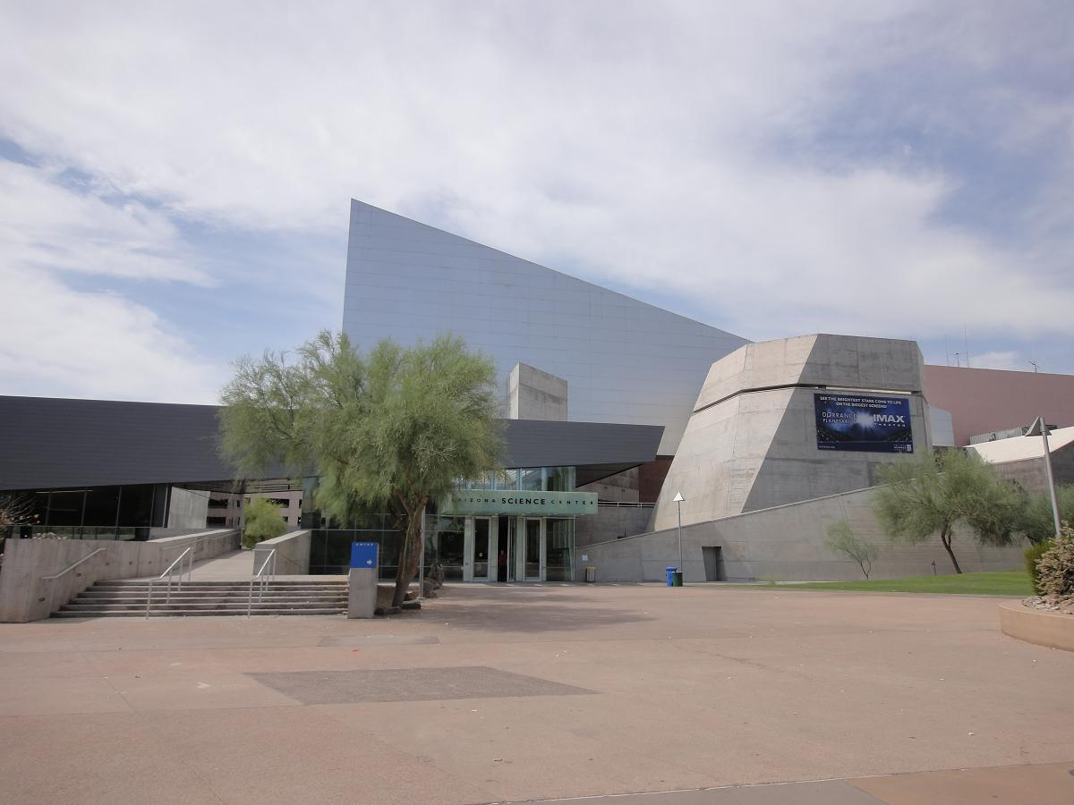 Arizona Science Center